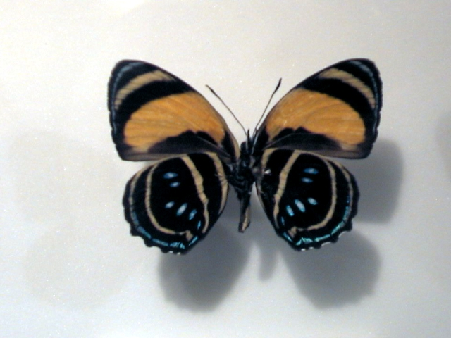 Callicore lyca mionina. Faunia, Madrid